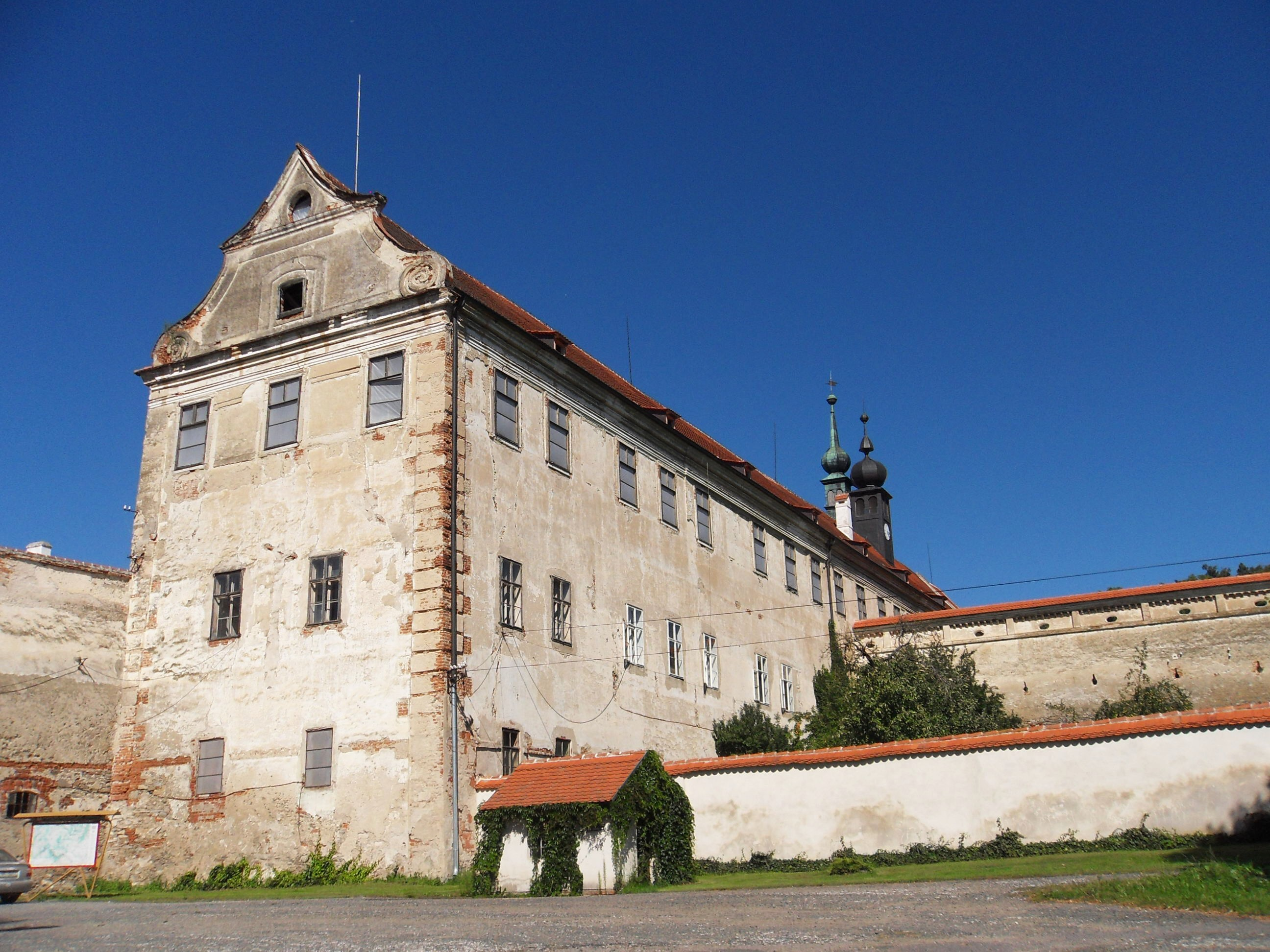 Uherčice castle, Znojmo district, Czech Republic